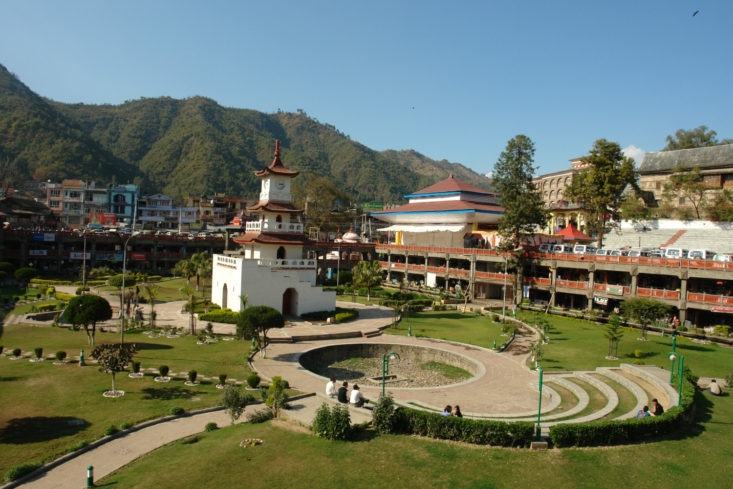 Sunken Garden in the Center of City. Sunken Garden is surrounded by Indira Market.